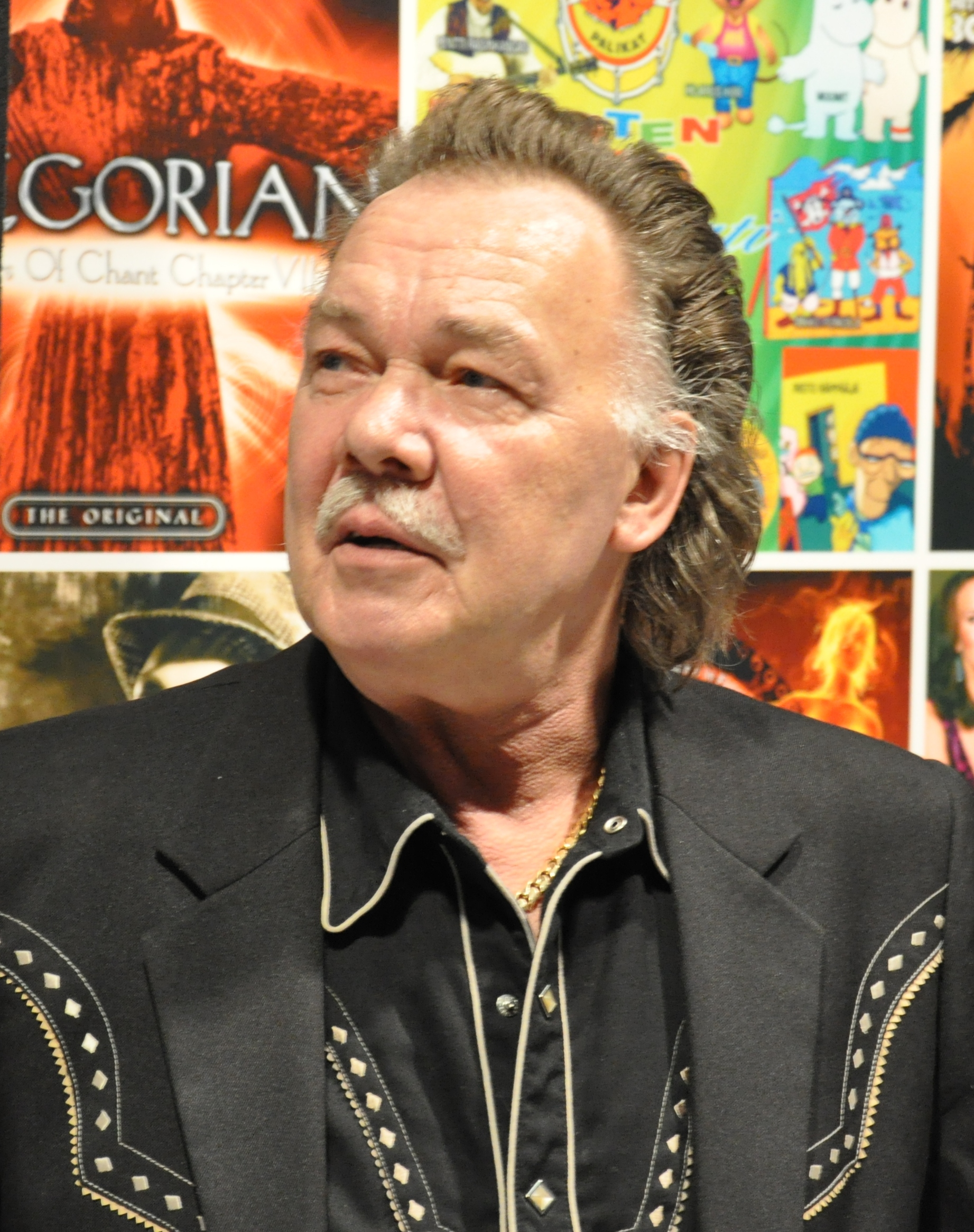 Finnish singer Kari Tapio at the Helsinki Music Fair 2009.